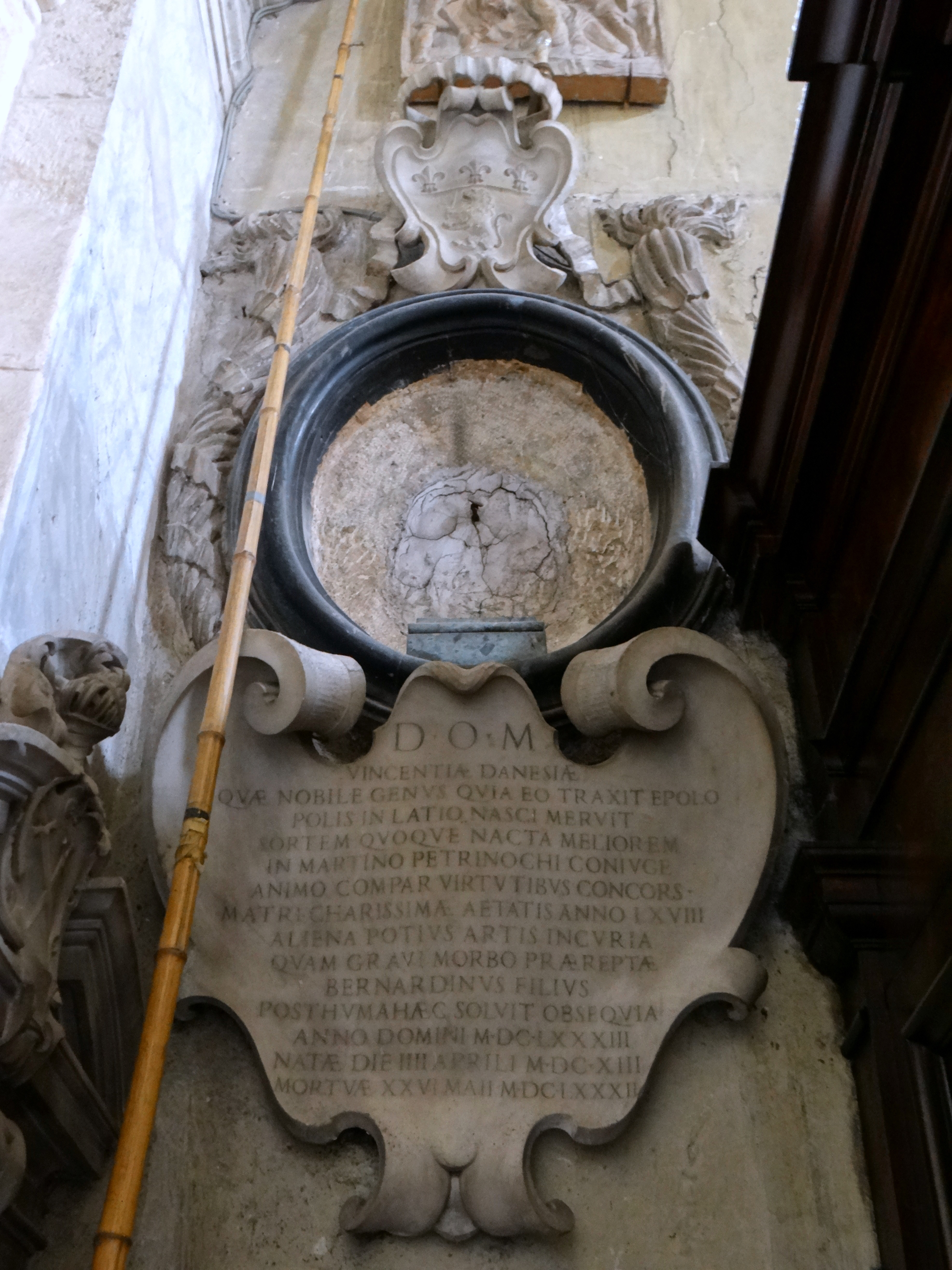 The funeral monument of Vincenza Danesi in the Basilica of Santa Maria del Popolo, Rome (1683).